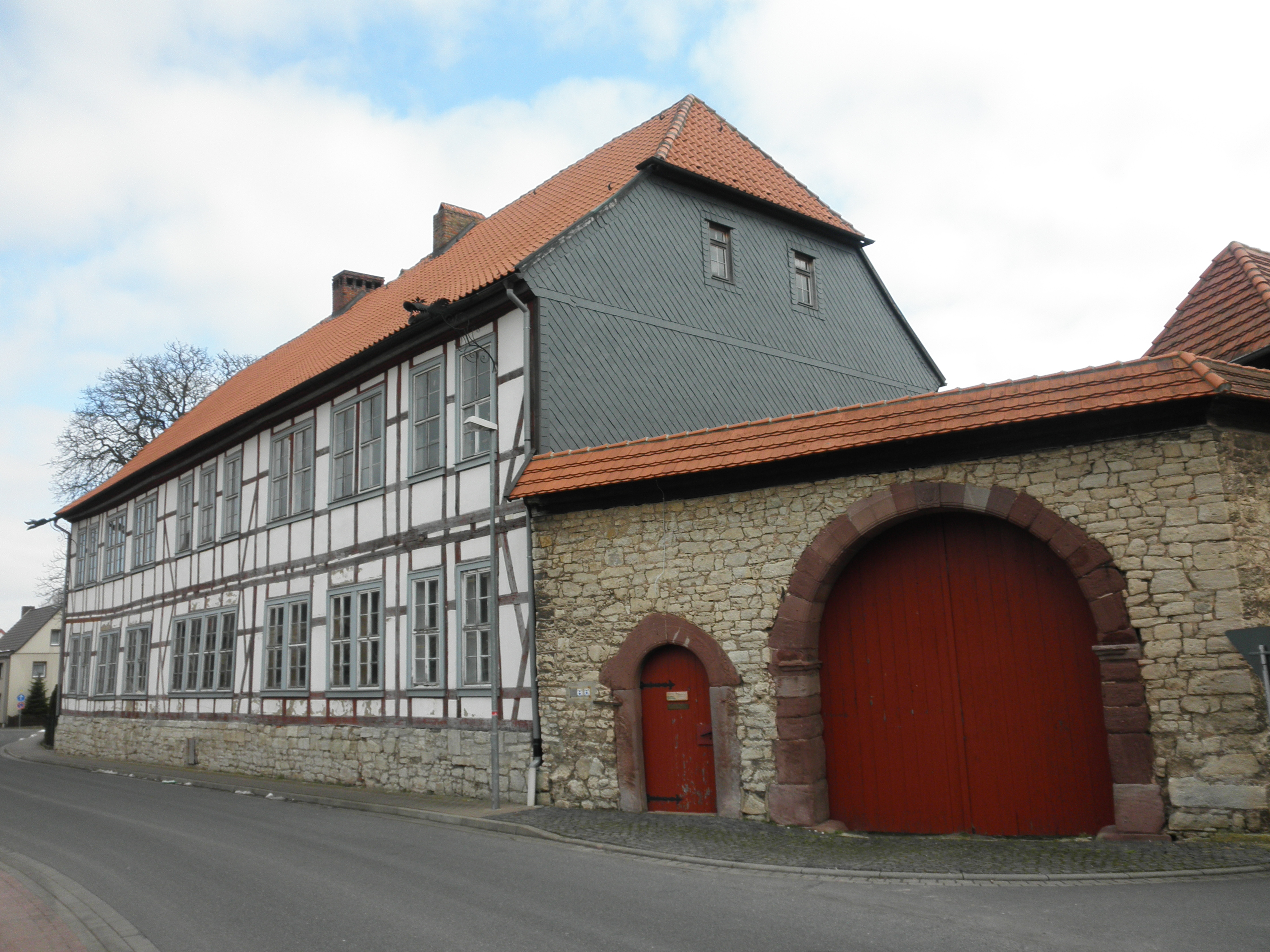 Manor in Wolkramshausen in Thuringia